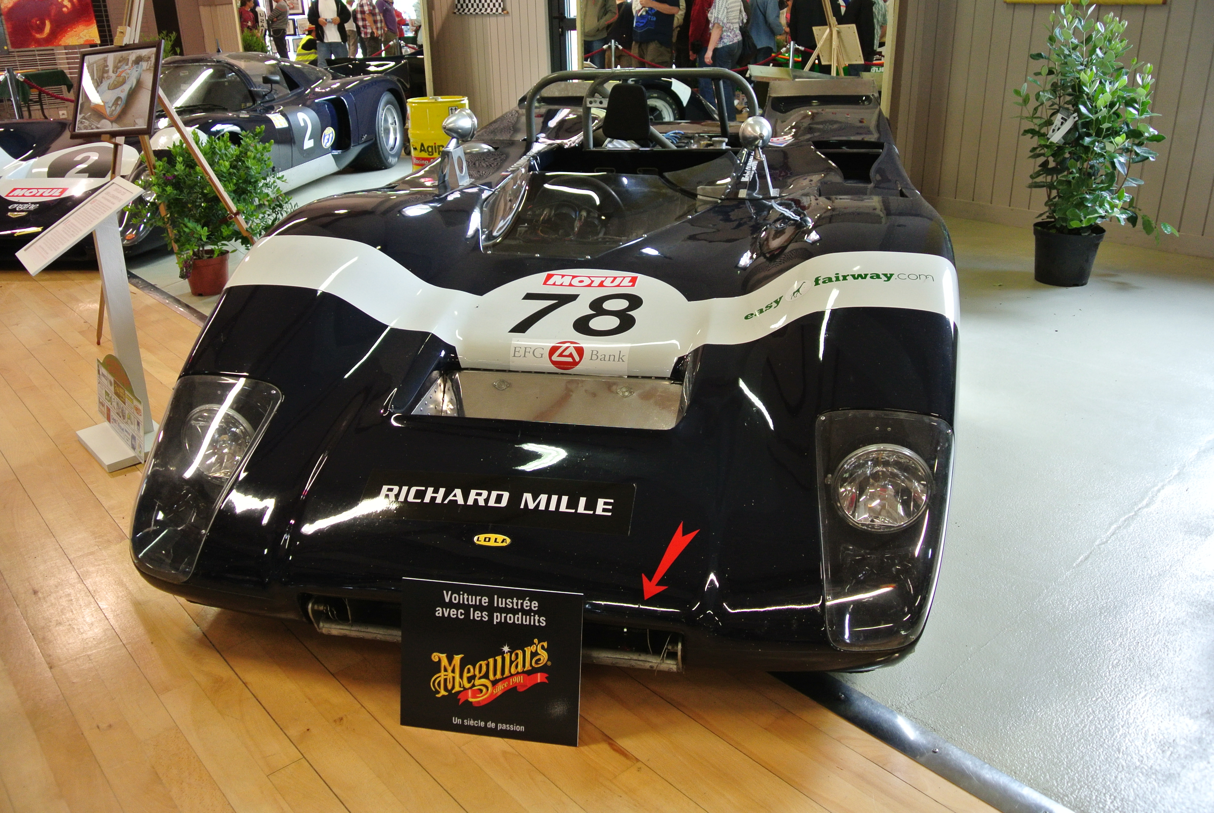 1970 Lola T210 as raced at Le Mans in 1970 and 1971 winning the 2 litre drivers title